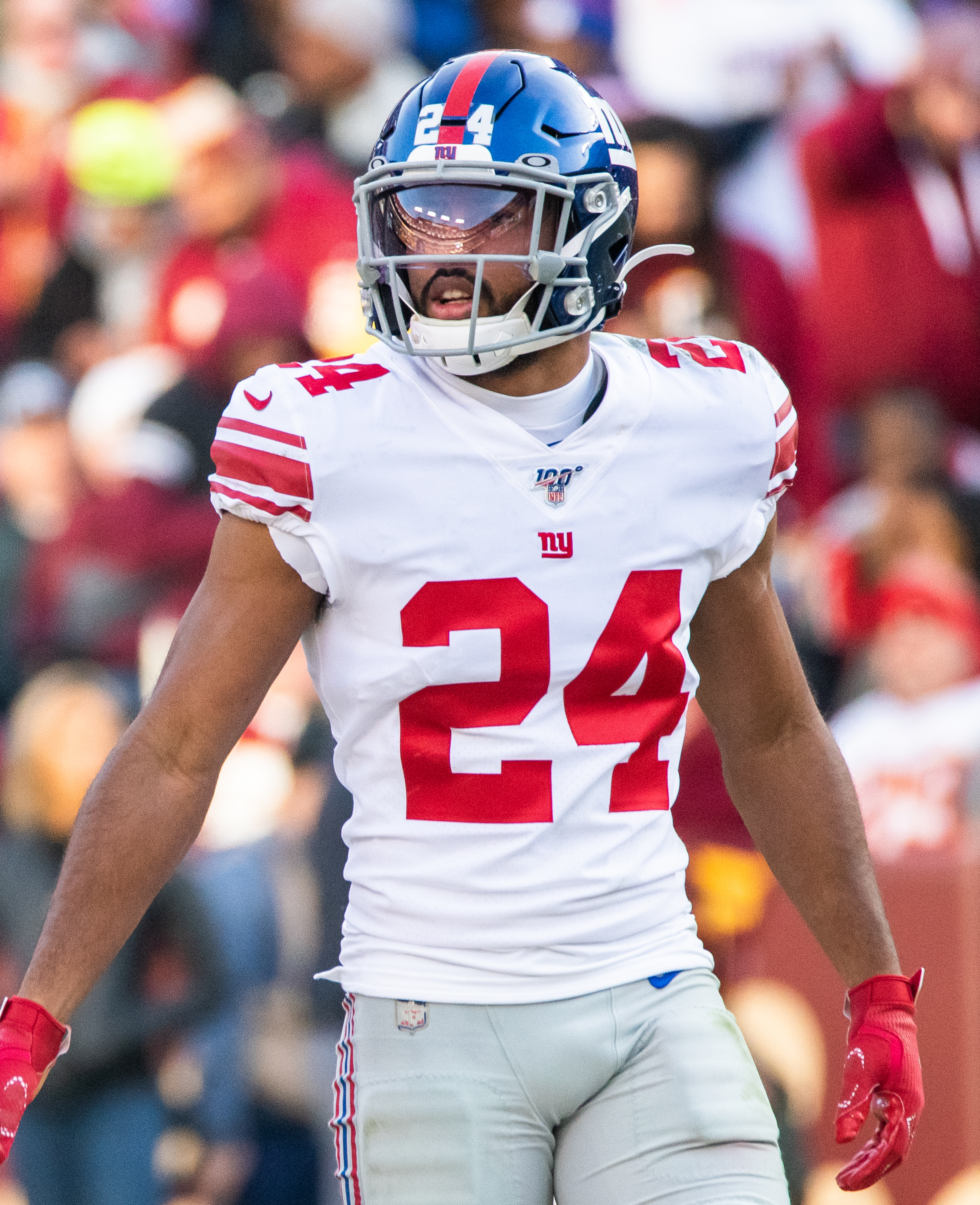 In 2019